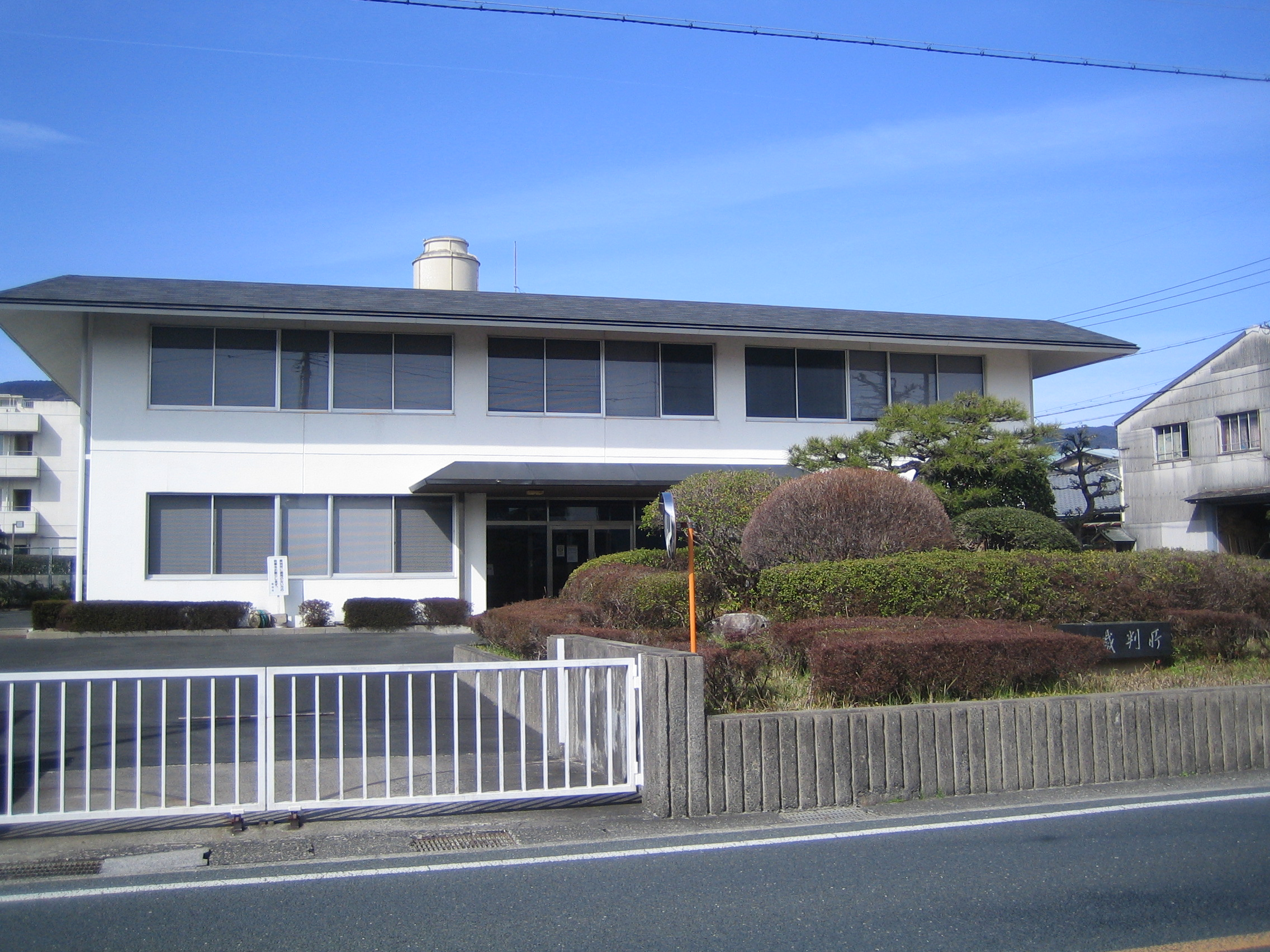 Shinshiro Branch of Nagoya District Court (名古屋地方裁判所新城支部), located in Shinshiro, Aichi, Japan